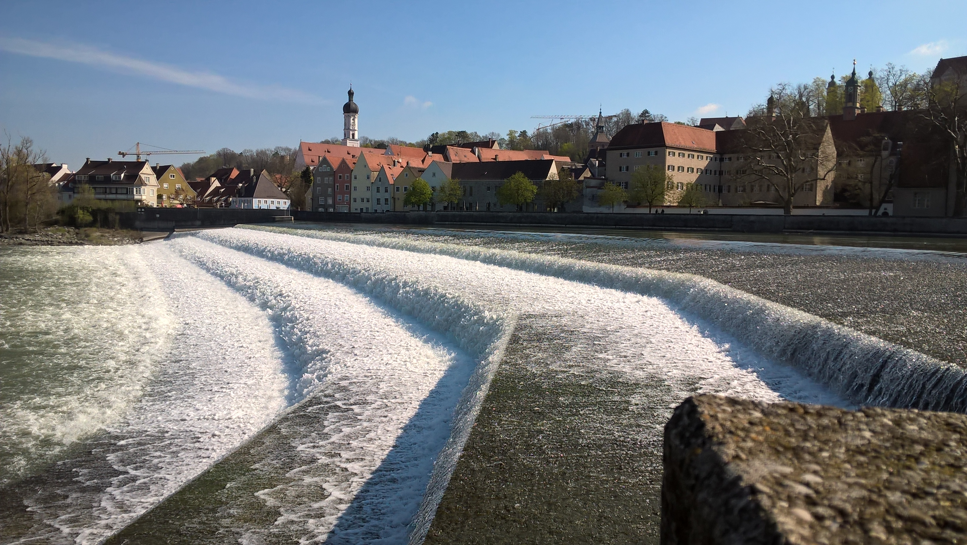 Lechwehr Landsberg am Lech